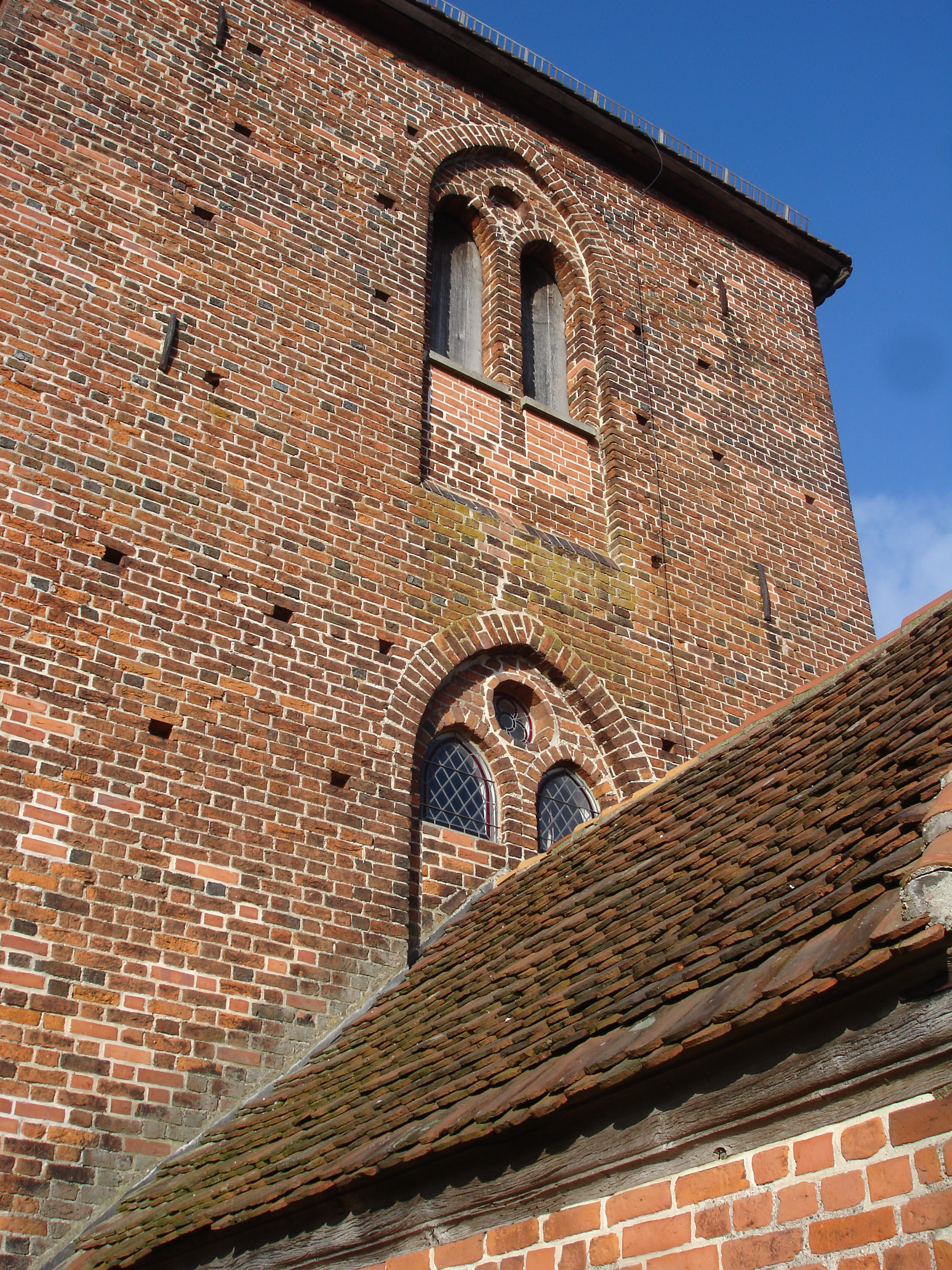 Church in Groß Brütz, district Nordwestmecklenburg, Mecklenburg-Vorpommern, Germany